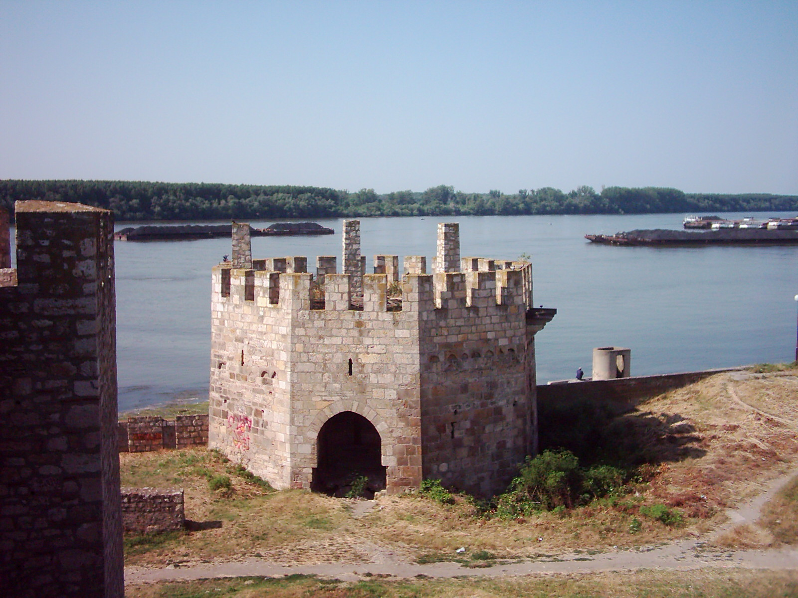 A tower in Smederevo Fortress, Serbia